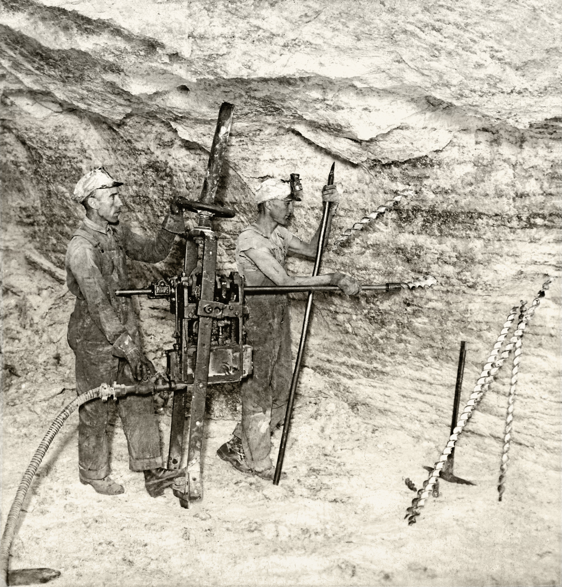 Drillers at work with compressed air drill salt mine Kansas.